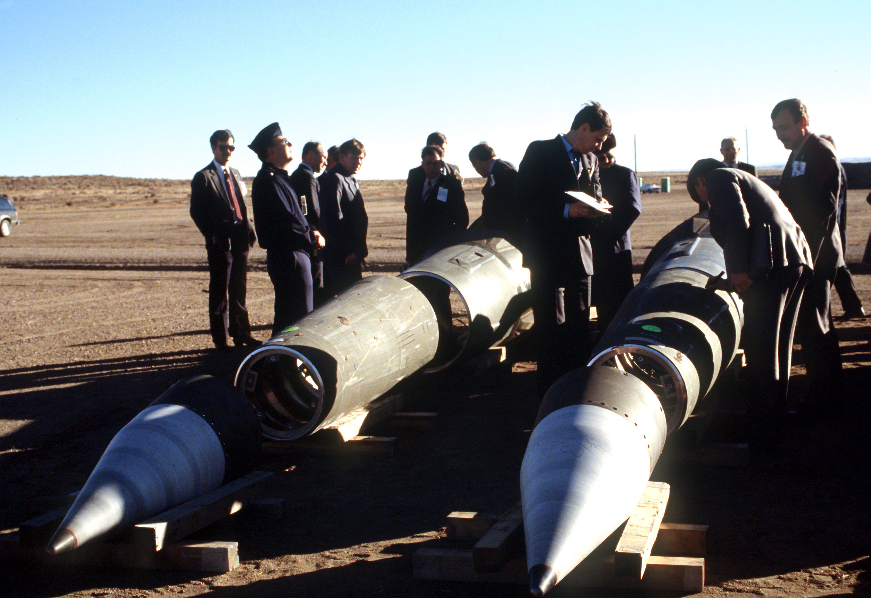 Soviet inspectors and their American escorts stand among several dismantled Pershing II missiles as they view the destruction of other missile components. The missiles are being destroyed in accordance with the Intermediate-Range Nuclear Forces (INF) Treaty.